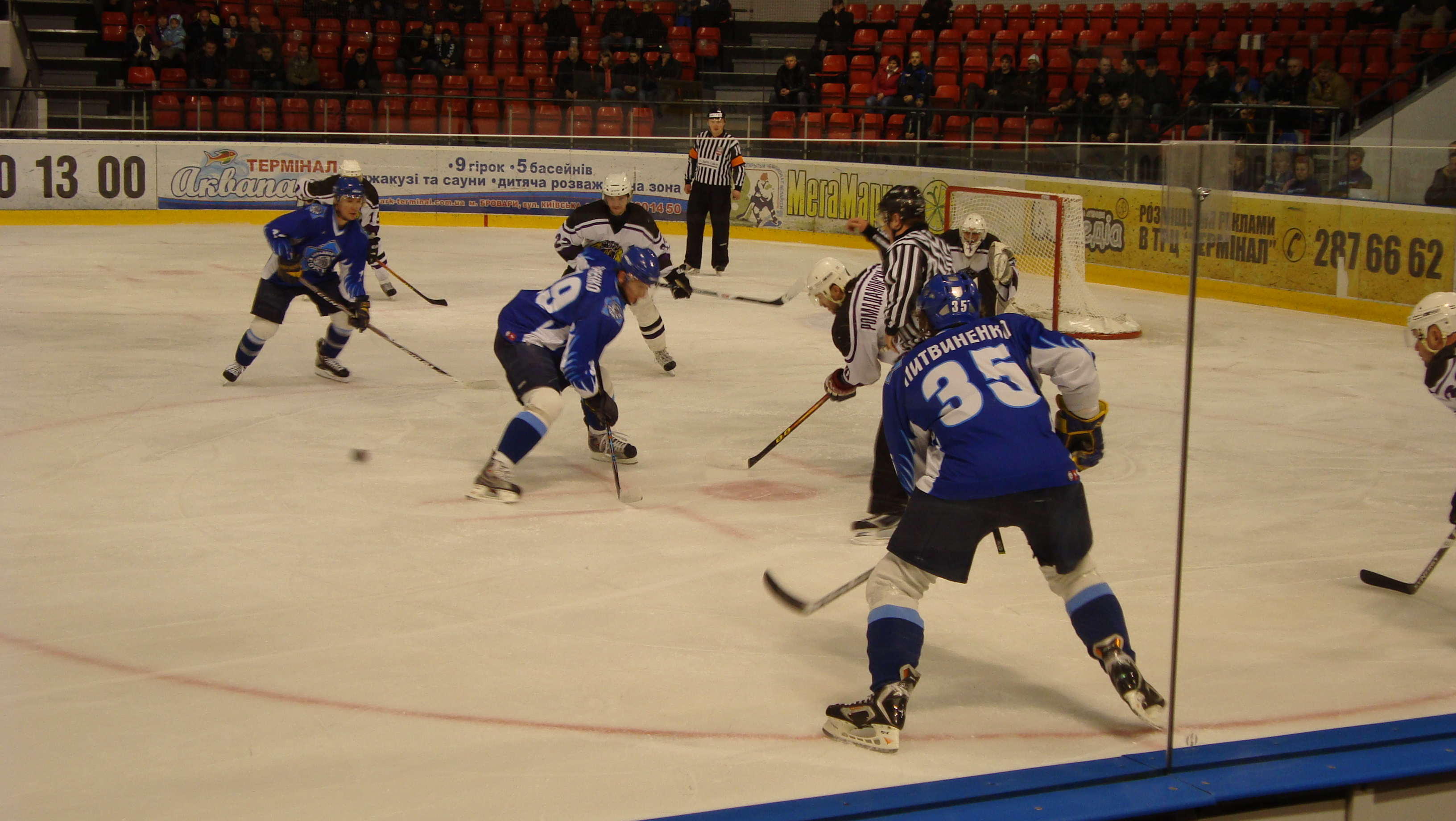 A face-off during the Belarusian Extraliga play-off Game 1 between Sokil Kyiv and Khimvolokno at Terminal on March 2, 2010 in Brovary, Ukraine. Sokil won the game 3-2.